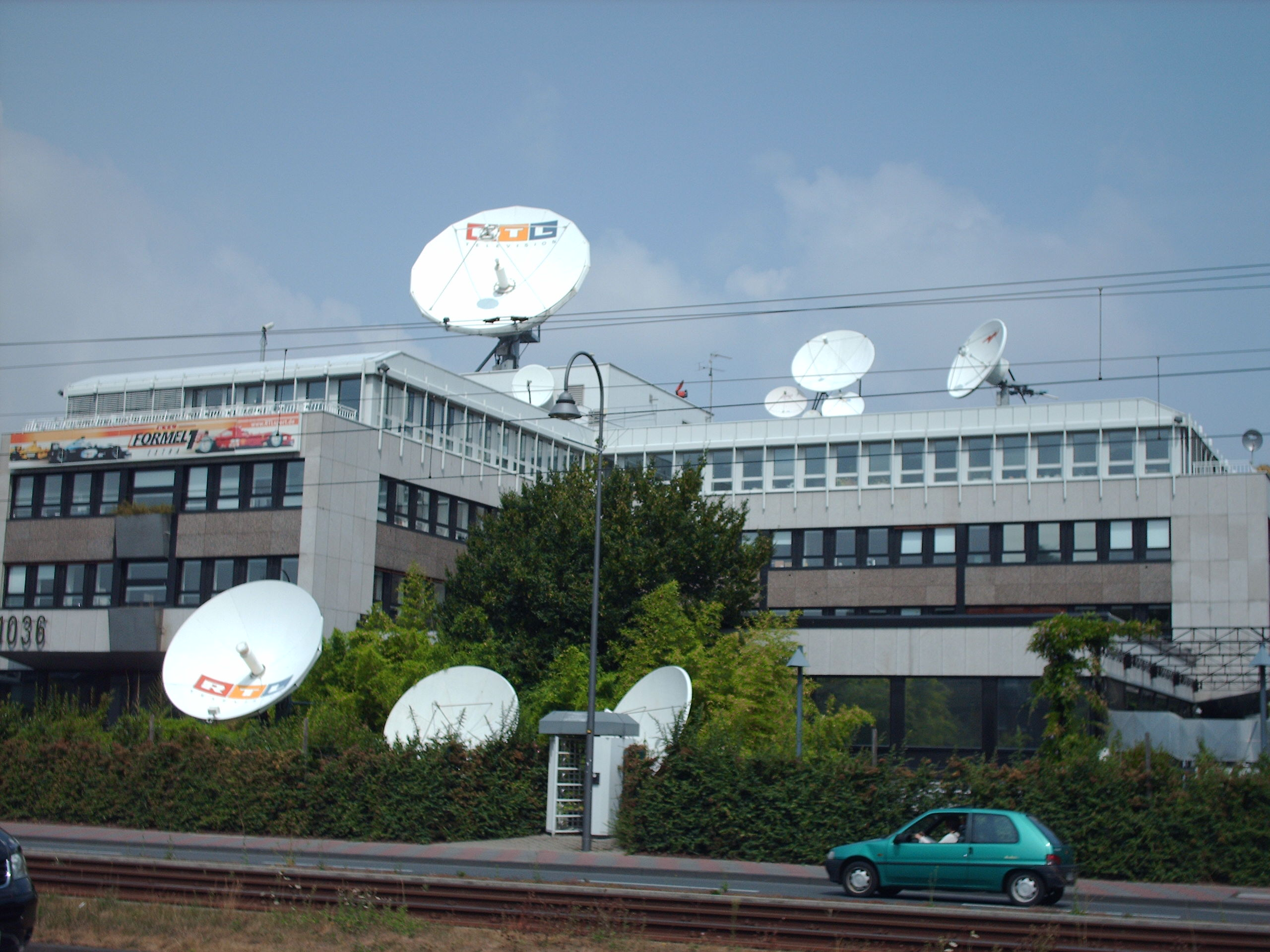 RTL in Junkersdorf, Cologne, Germany check usage